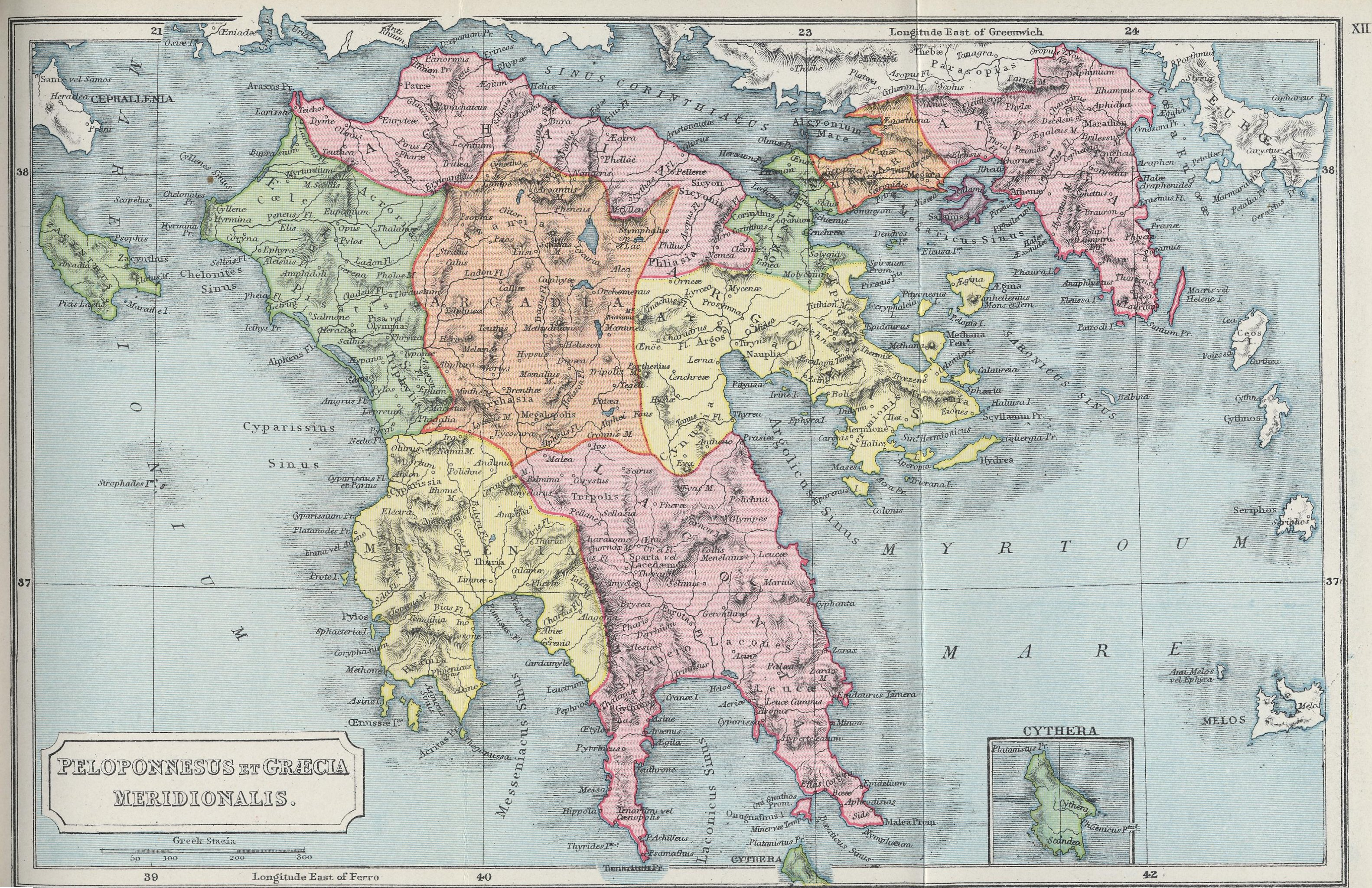 The Atlas of Ancient and Classical Geography by Samuel Butler